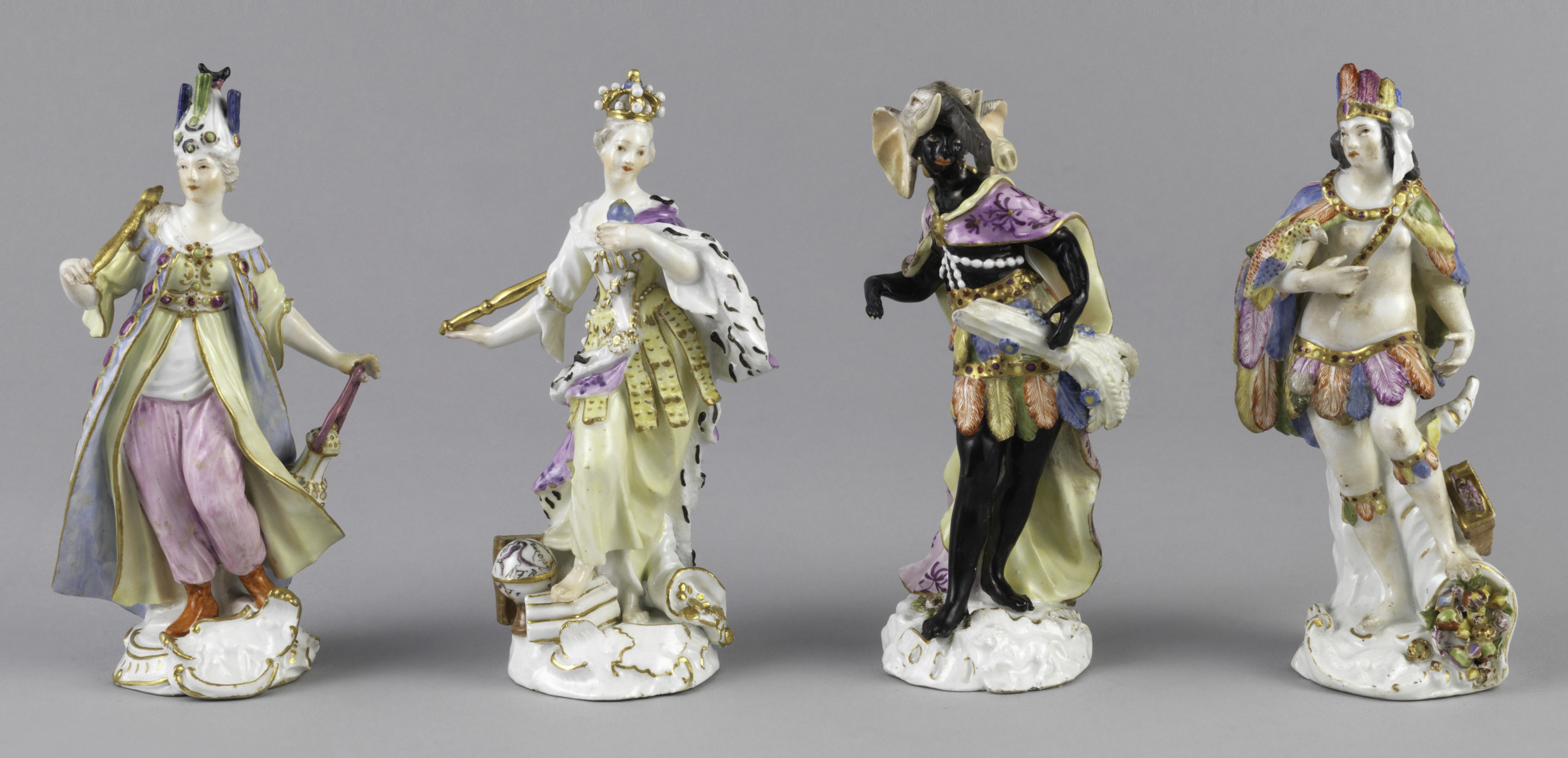 Four figures (a, b, c, d) together form a set. (a): Standing female figure, wearing jeweled mantle and turban with half-moon, holding sceptre and censer. Relief cartouche with camel; (b): Standing female figure, wearing ermine and crown, holding sceptre and orb. Book, globe, cornice fragment, cornucopia and relief cartouche with horse; (c): Standing black female figure, wearing feather skirt, mantle, and elephant-head coif, holding sheaf of wheat. Relief cartouche with lion; (d): Standing female figure, wearing feather skirt, mantle, and headdress. Parrot perched on arm, quiver with arrows and relief cartouche with alligator.